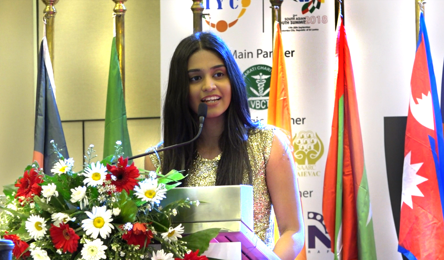 Michelle Dilhara addressing the gathering at the South Asian Youth Summit 2018